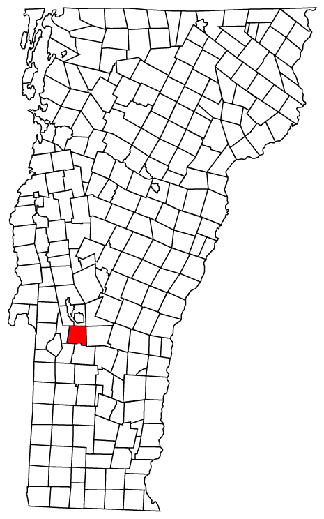 Description: Map of Vermont towns with Clarendon highlighted Source: Map created by Jared C. Benedict on 26 March 2004. Copyright: © Jared C. Benedict.